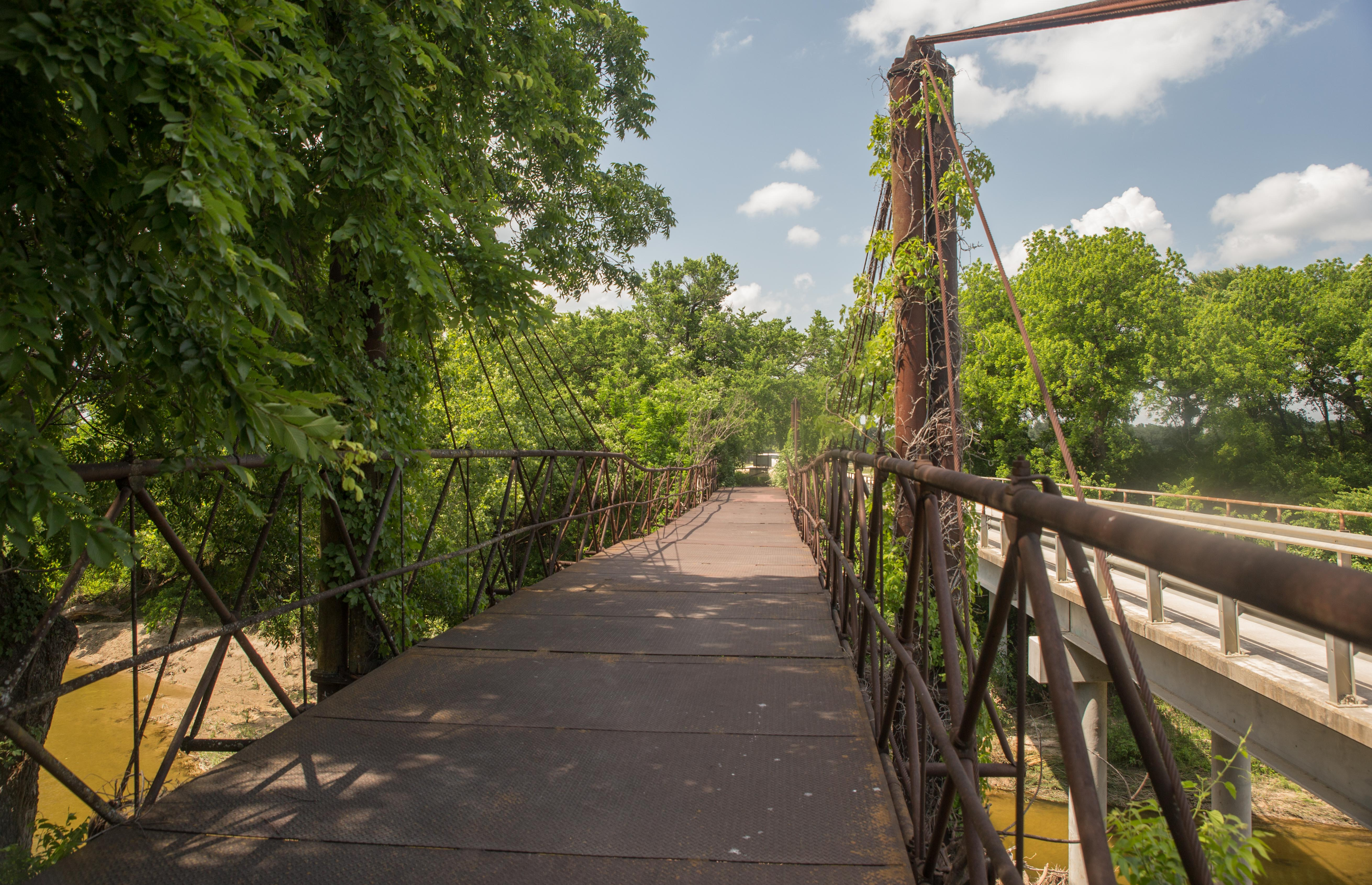 Bluff Dale Bridge located in Bluff Dale in Erath County, Texas